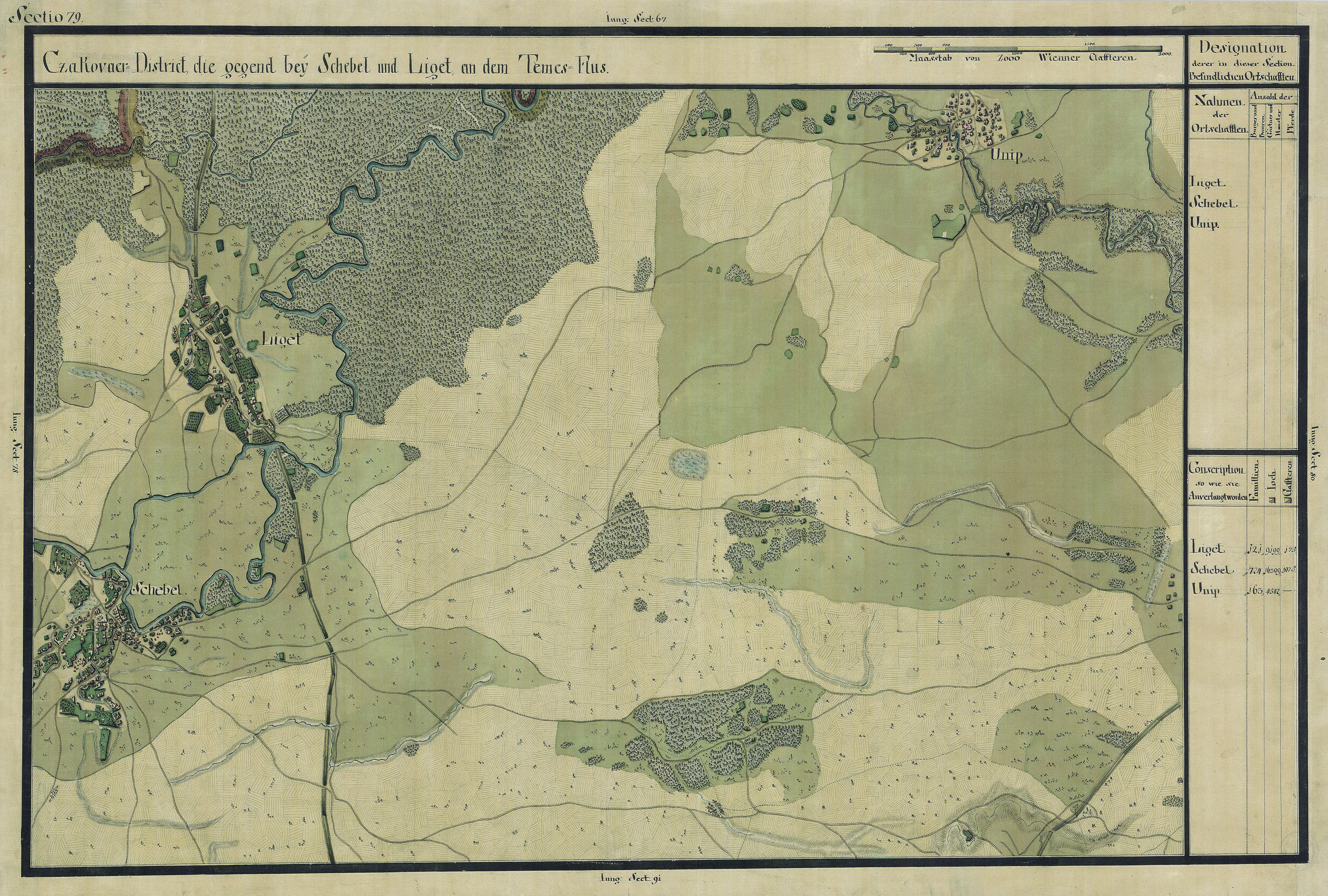 The Banat region in the cadastral maps: Josephinische Landesaufnahme, 1769-72. Josephinische Landaufnahme pg079